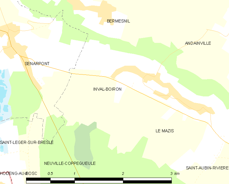 Map of French municipality Inval-Boiron